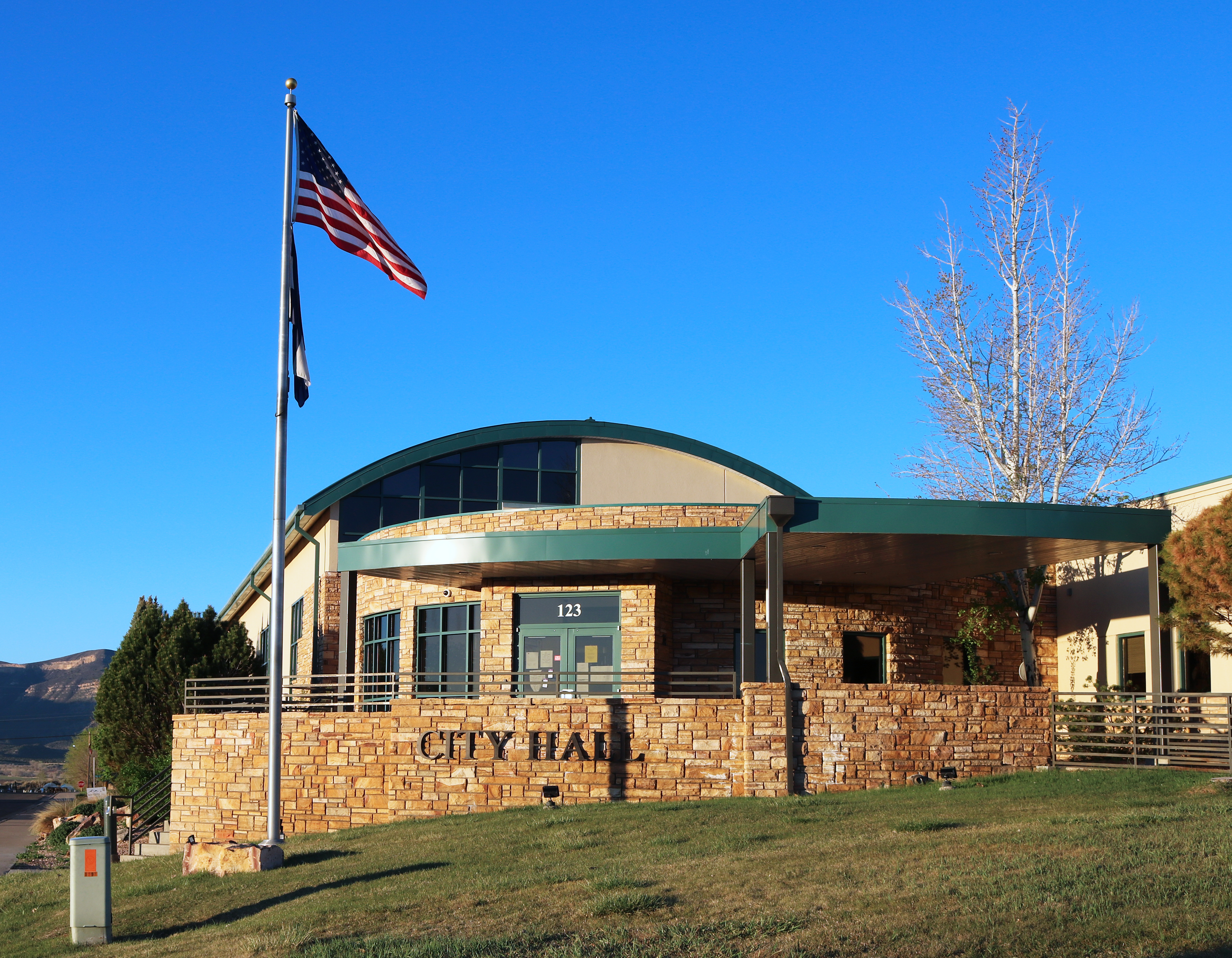 The Cortez, Colorado City Hall, located at 123 East Roger Smith Avenue in Cortez, Colorado, 81321.